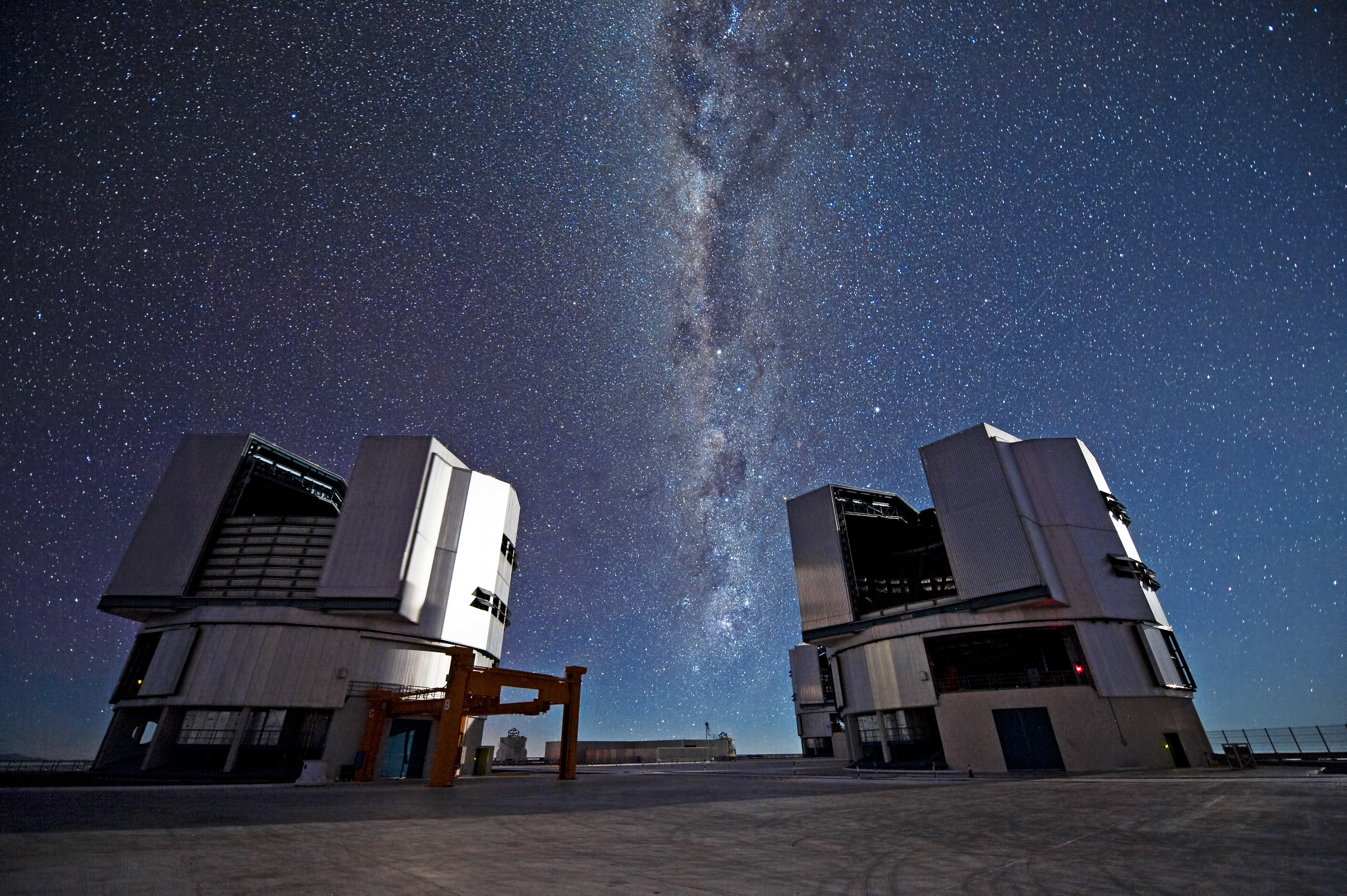 On a remote mountaintop, 2600 metres above sea level in the Chilean Atacama Desert, lies the world’s most advanced visible-light observatory. The European Southern Observatory’s Very Large Telescope (VLT) is not only a window on the Universe; it is also a celebration of modern science and technology. This photograph shows two of the four Unit Telescopes that make up the VLT. With its giant 8.2-metre diameter mirrors, sensitive detectors, and state-of-the art adaptive optics system, the VLT uses cutting-edge technology at every opportunity. Even the telescope enclosures — the domes — are highly advanced, being thermally controlled to reduce air turbulence in the telescope structure. Every night the VLT studies the sky to make discoveries about the Universe. Visible in this photo, sweeping between the two Unit Telescopes, is the plane of the Milky Way. Containing billions of stars, it is our own corner of the cosmos, but the VLT's vision can peer much deeper than this, our home galaxy, and look out to the extremes of space, all in the name of science and discovery.